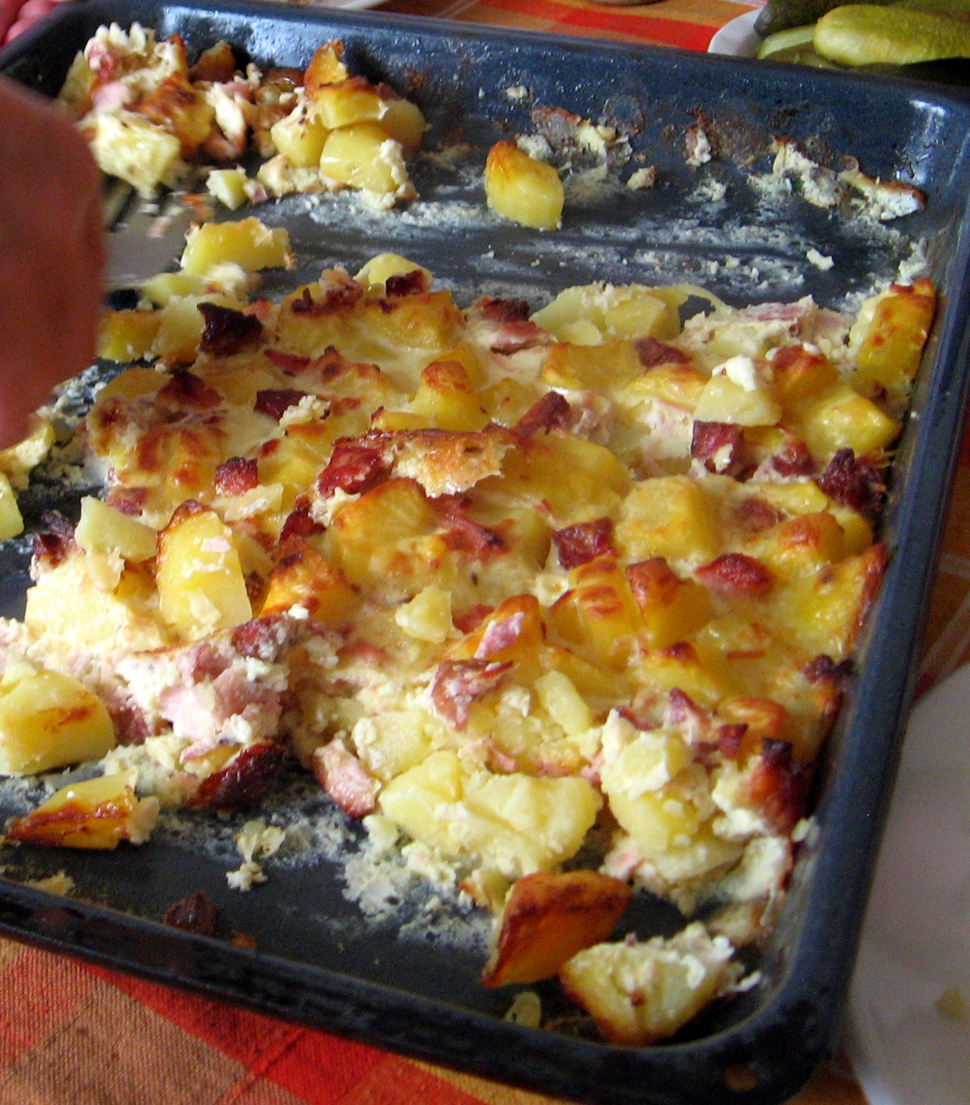 Baked Potatoes